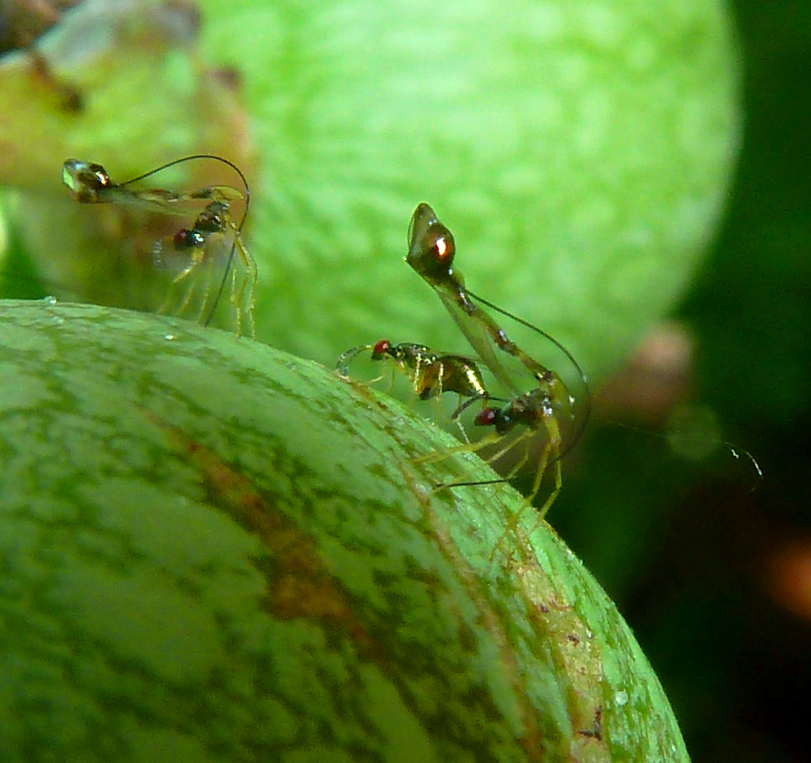 Adult female fig wasps A. guineensis on a young fig of Ficus sur in Manie van der Schijff Botanical Garden, Pretoria